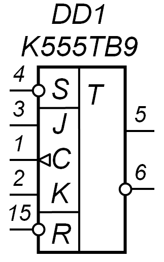 Synchronous JK-Flipflop K555TV9 ( = 74LS112)